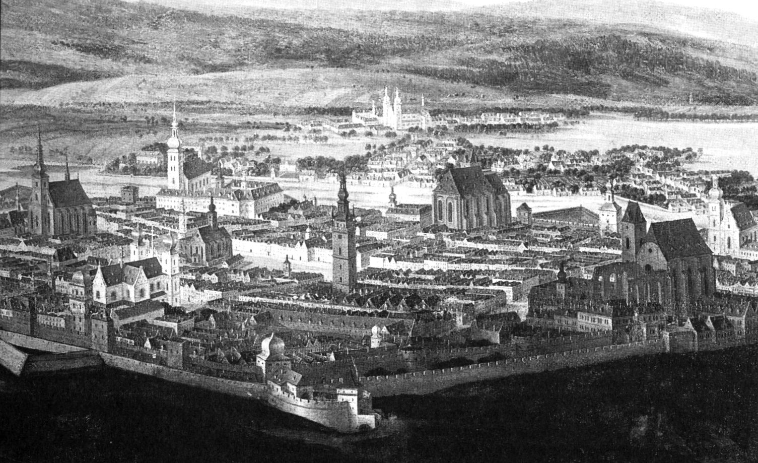 Brno in 1690